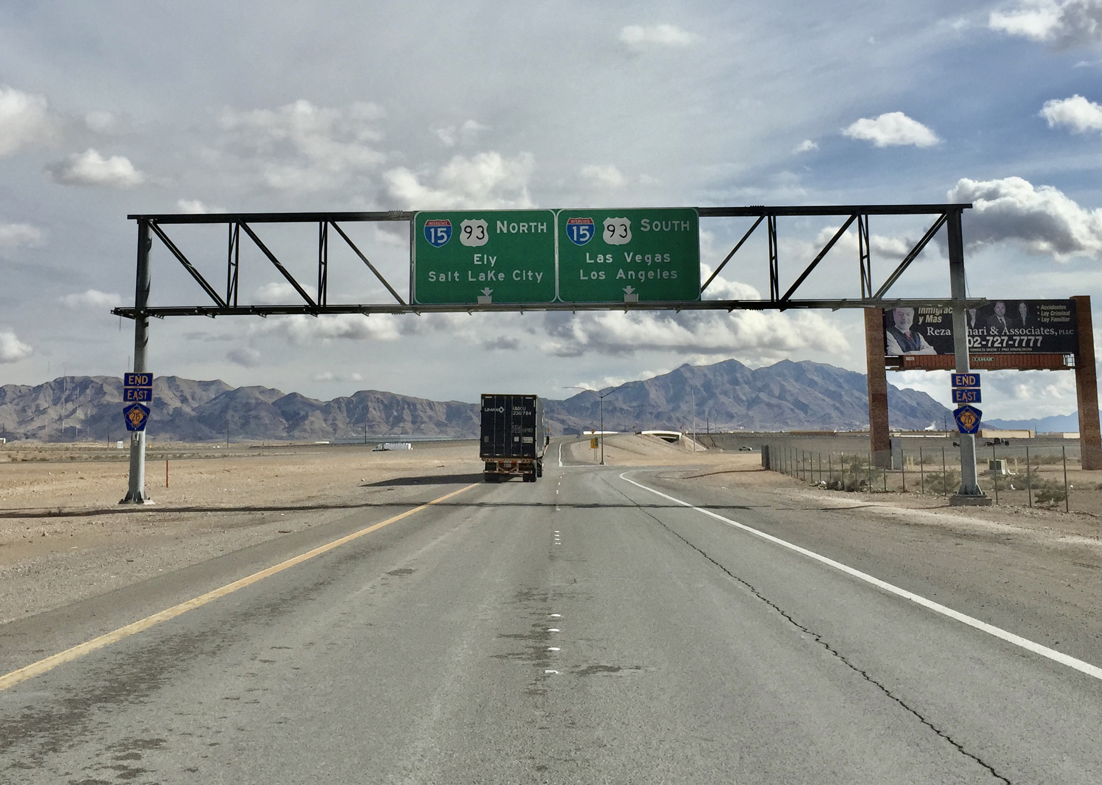 View east at the northeastern end of Clark County Route 215 (Las Vegas Beltway) at Interstate 15 and U.S. Route 93 in North Las Vegas, Nevada